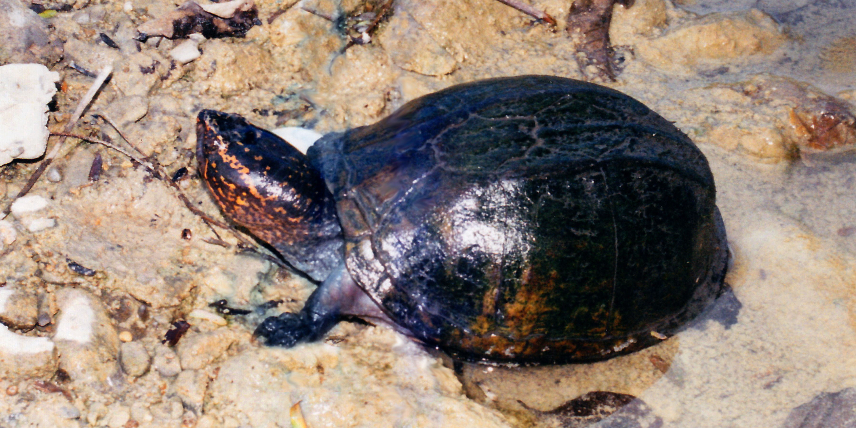 Scorpion Mud Turtle (Kinosternon scorpioides), southern Tamaulipas, Mexico. Photographed on 23 September 2004 by William L. Farr. This image was originally photographed with film and later scanned from a print.